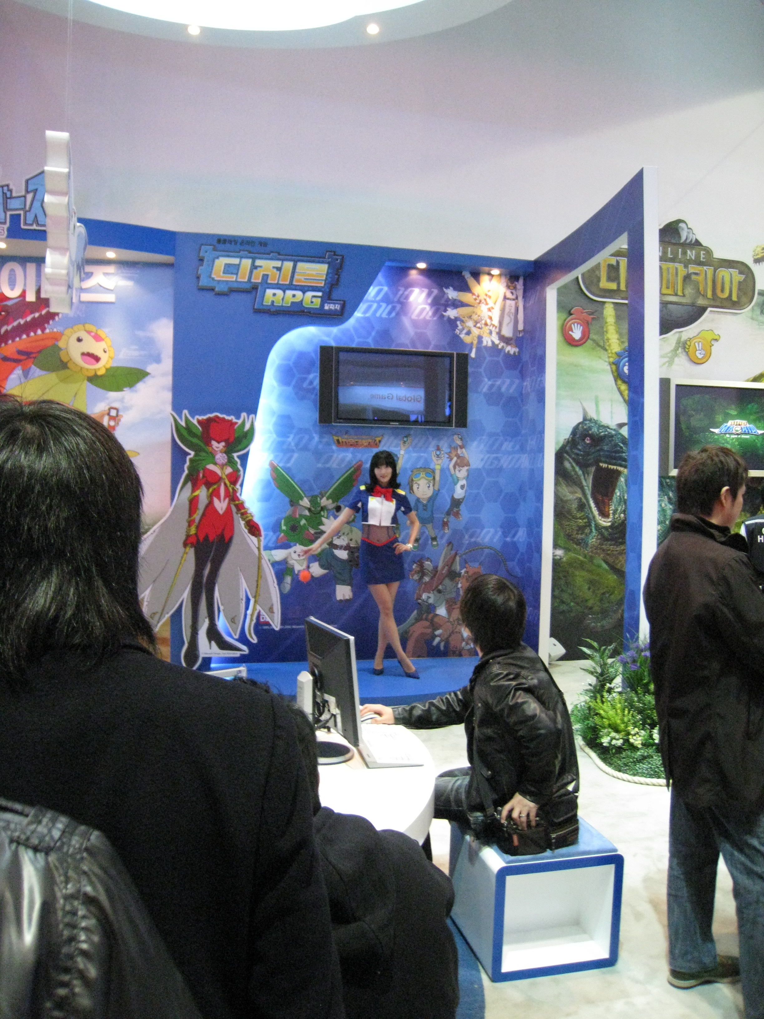 digimon booth babe